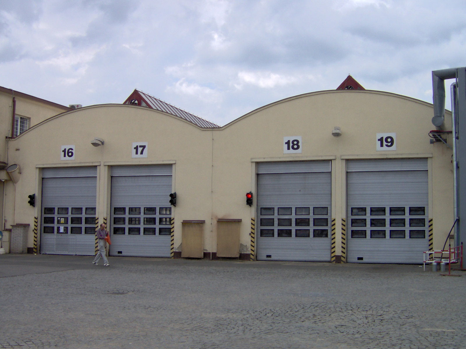 Bus depot Medlánky in Brno